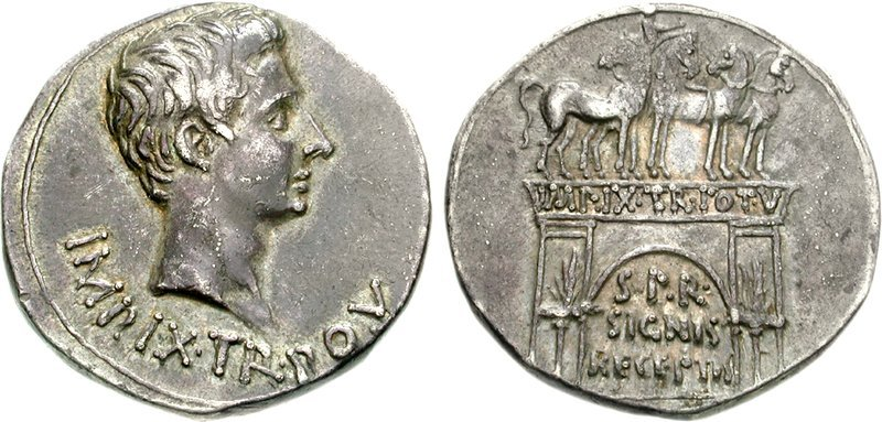 Augustus. 27 BC-AD 14. AR Cistophorus (11.89 g, 12h). Pergamum mint. Struck 19-18 BC. IMP • IX • TR • PO • V •, bare head right S • P • R • /SIGNIS/RECEPTIS in three lines below, Triumphal Arch of Augustus, surmounted by charioteer in facing quadriga; an aquila before each side wall; IMP • IX • TR • POT • V • on entablature. RIC I 510; Sutherland Group VIIa, - (unlisted dies); RSC 298; RPC I 2218; BMCRE 703 = BMCRR East 310; BN 982-3 and 985; CNR 809/2.